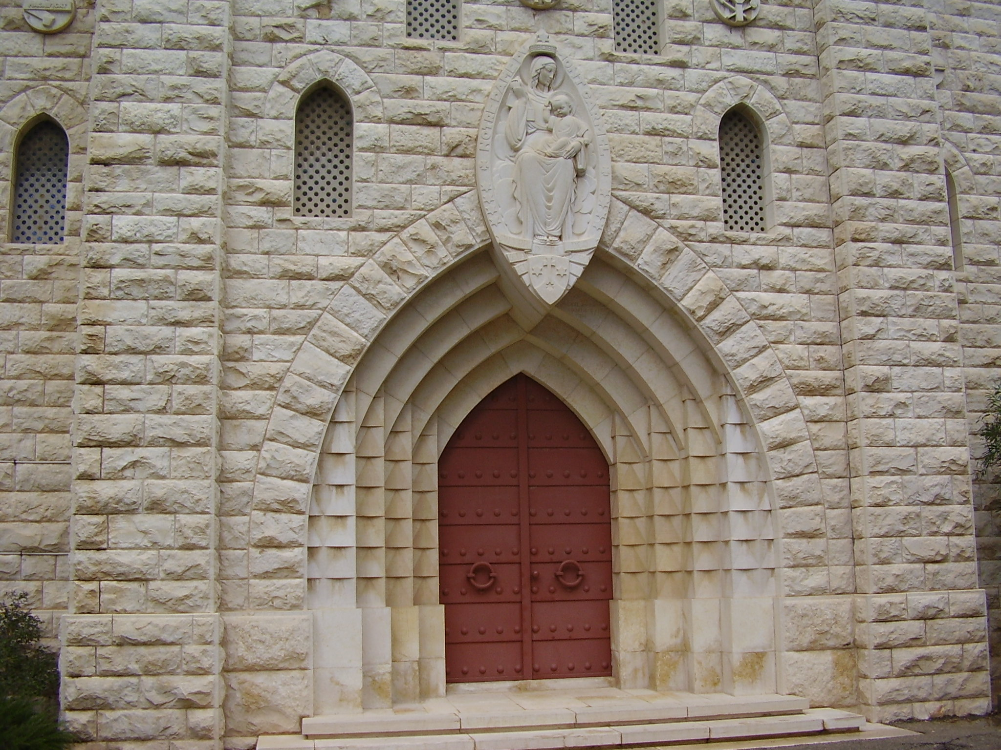 church of notre-dam du mont carmel in haifa